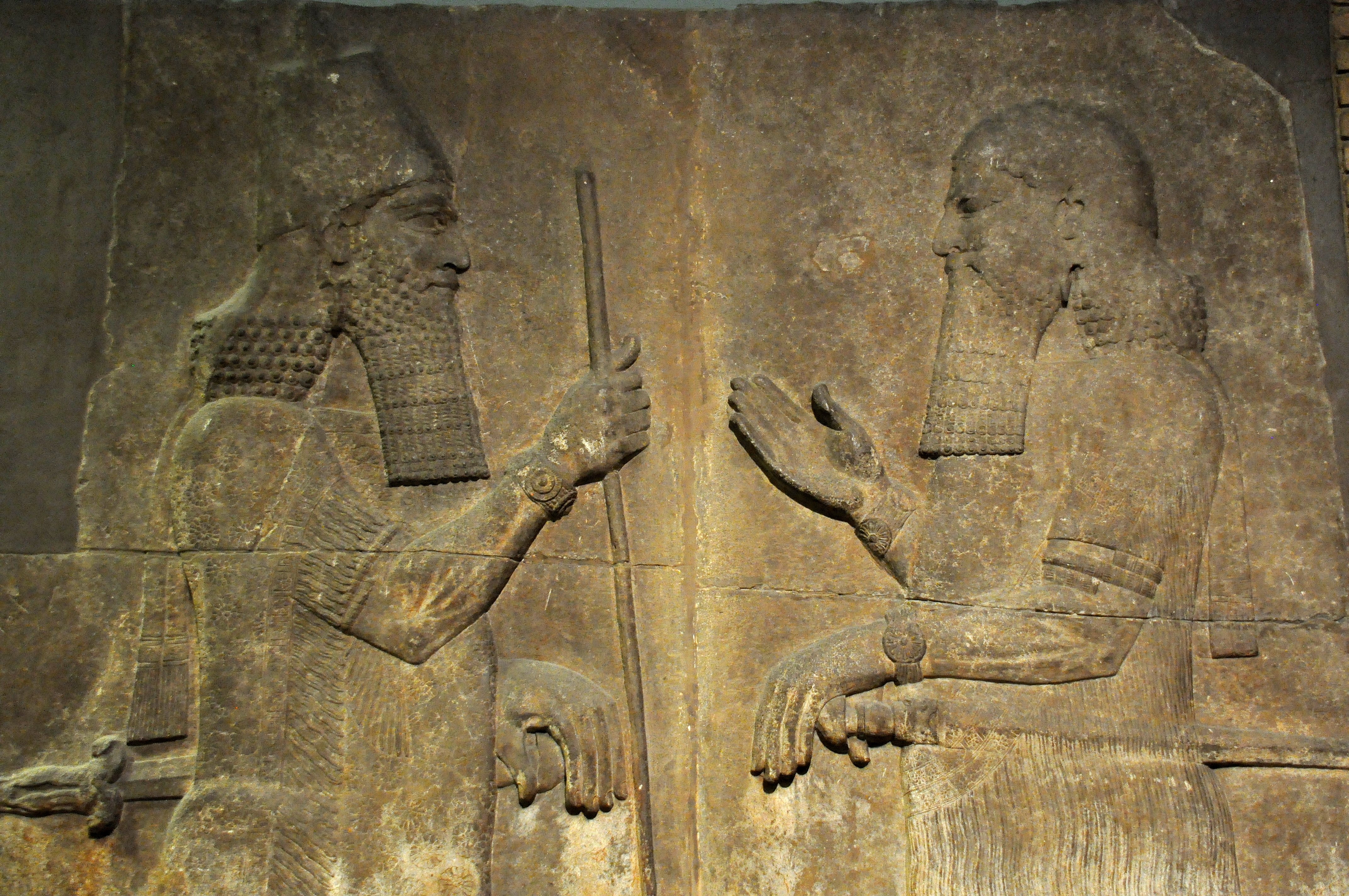 Sargon II (left) faces a high-ranking official, possibly Sennacherib his son and crown prince. The king holds a long staff. Gypsum wall relief. Neo-Assyrian Period, reign of Sargon II, 710-705 BCE. From Khorsabad, Mesopotamia, modern-day Iraq. The British Museum, London.